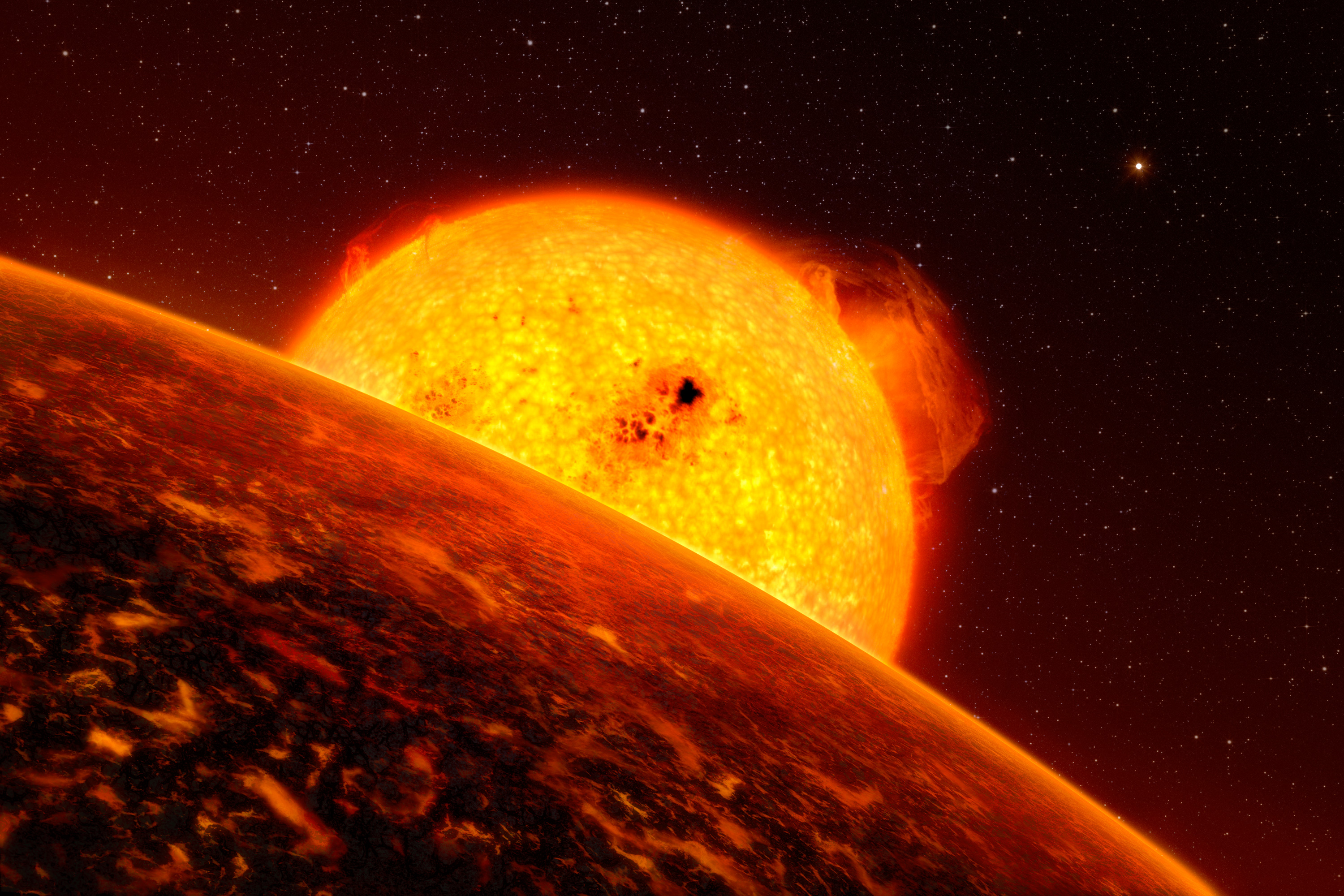 The exoplanet Corot-7b is so close to its Sun-like host star that it must experience extreme conditions. This planet has a mass five times that of Earth’s and is in fact the closest known exoplanet to its host star, which also makes it the fastest — it orbits its star at a speed of more than 750 000 kilometres per hour